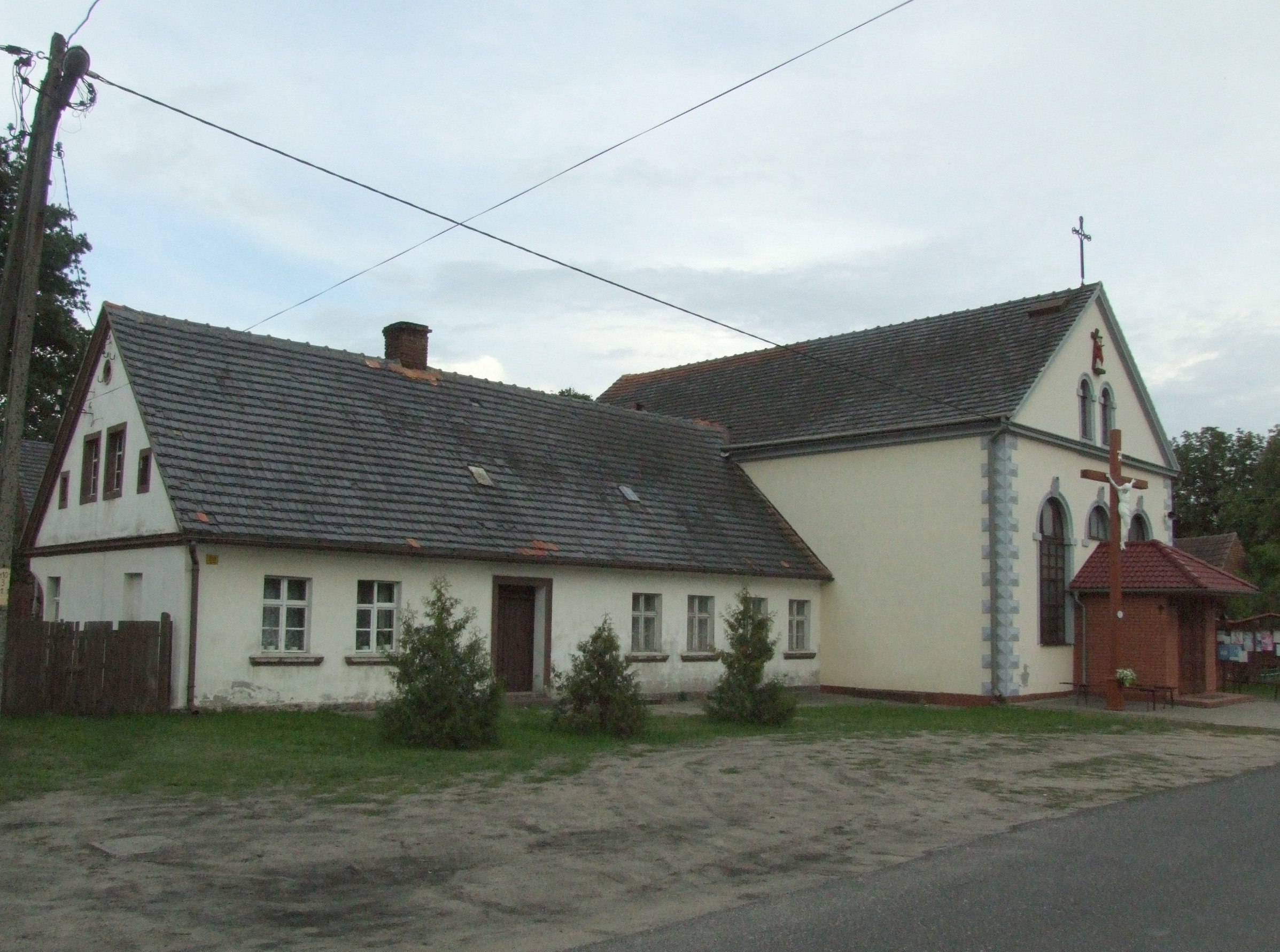 the church in Zielona Góra Krępa, Poland Author: Mohylek 11:01, 6 October 2006 (UTC)